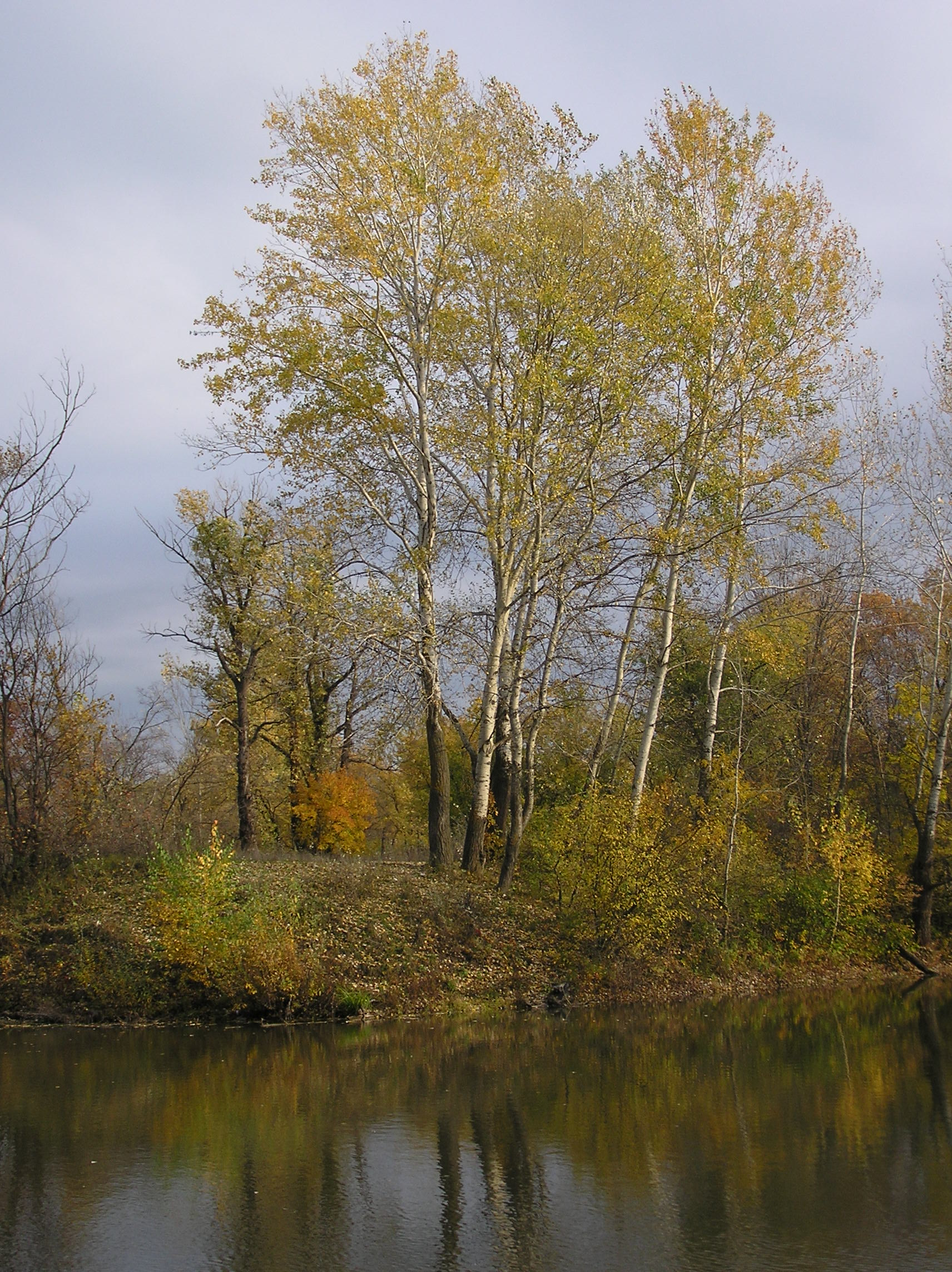 Populus × canescens (Aiton) Sm.; habitus. Habitat: bottomland deciduous forest; oxbow lake near Volgograd Reservoir (Volga). Engelssky District, Saratov oblast, Russia.